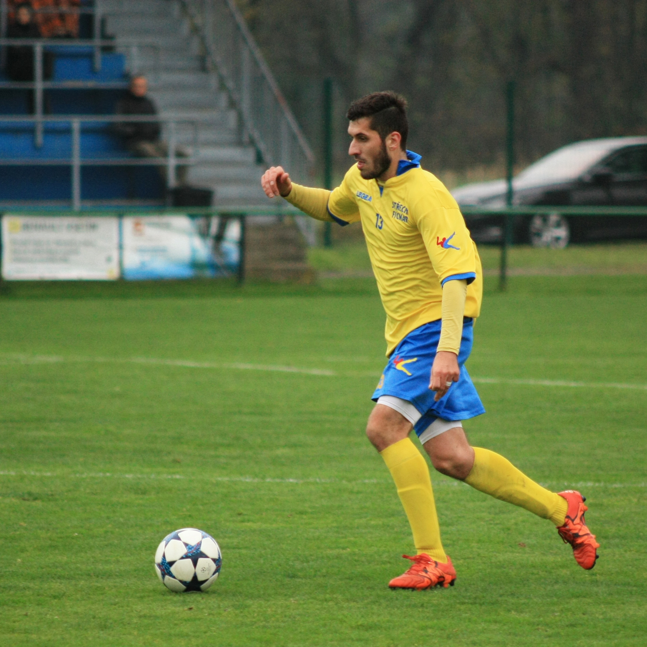 FK Baník Ostrava-SK Stonava match (2:3) played on 22 October 2018